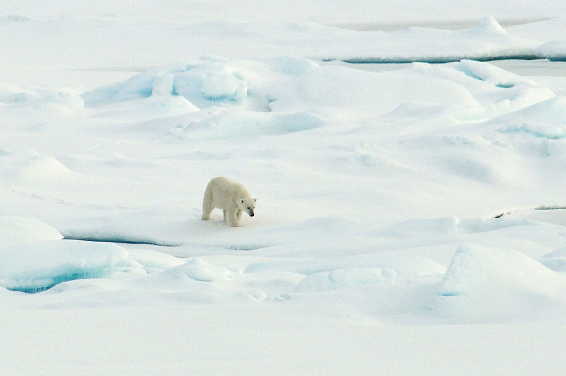 Polar bear on sea ice. Alaska, Beaufort Sea.